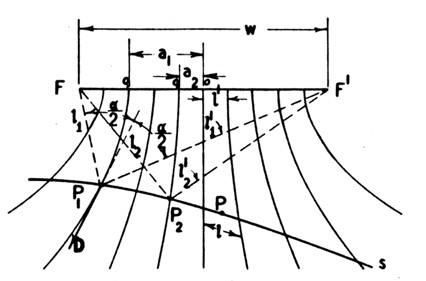 Arun Gershun, now in public domain